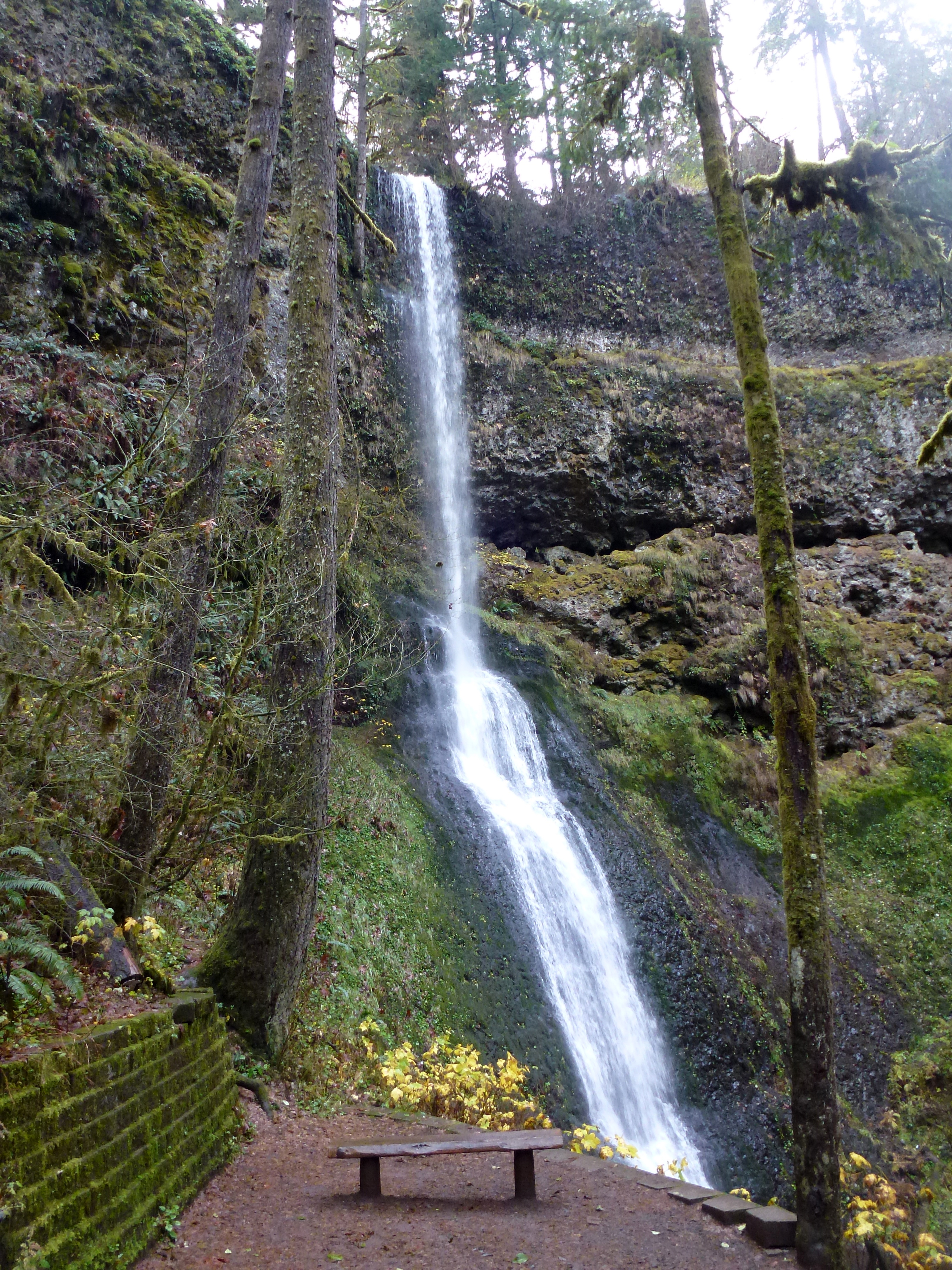 134-foot (41 m) tall Winter Falls in Silver Falls State Park.